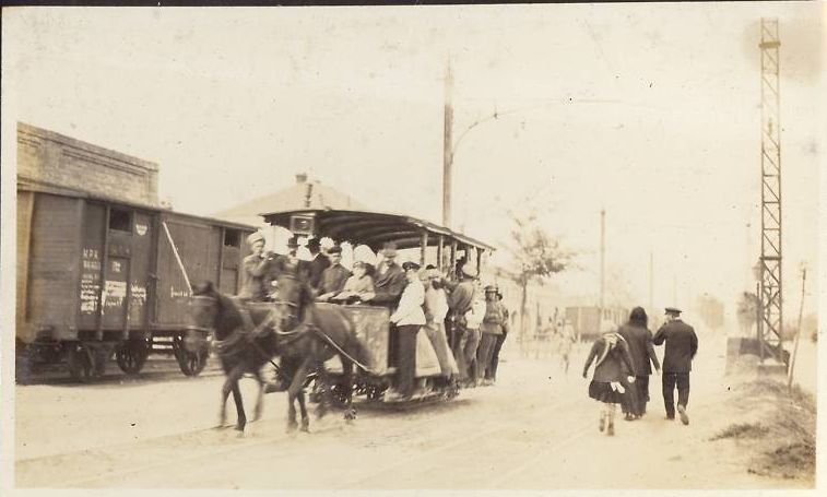 Odessa. Konka.